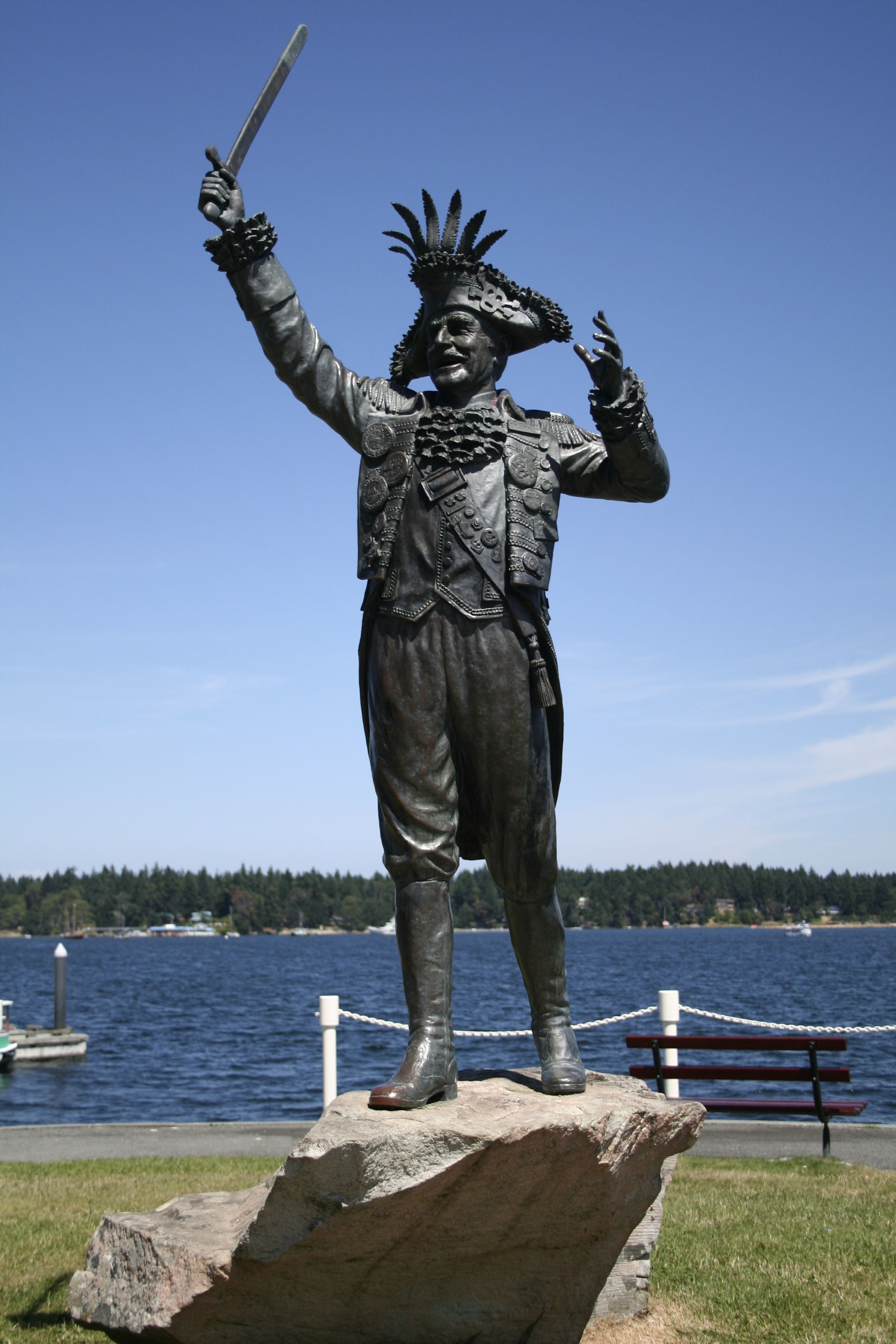 Statue of Frank Ney (1994) by Jack Harman in Maffeo Sutton Park in Nanaimo, British Columbia Canada